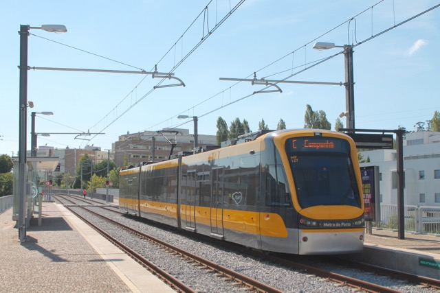 The ISMAI stop of the Metro do Porto